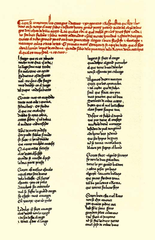 Photo of "Cancionero de Baena" (Juan Alfonso de Baena)